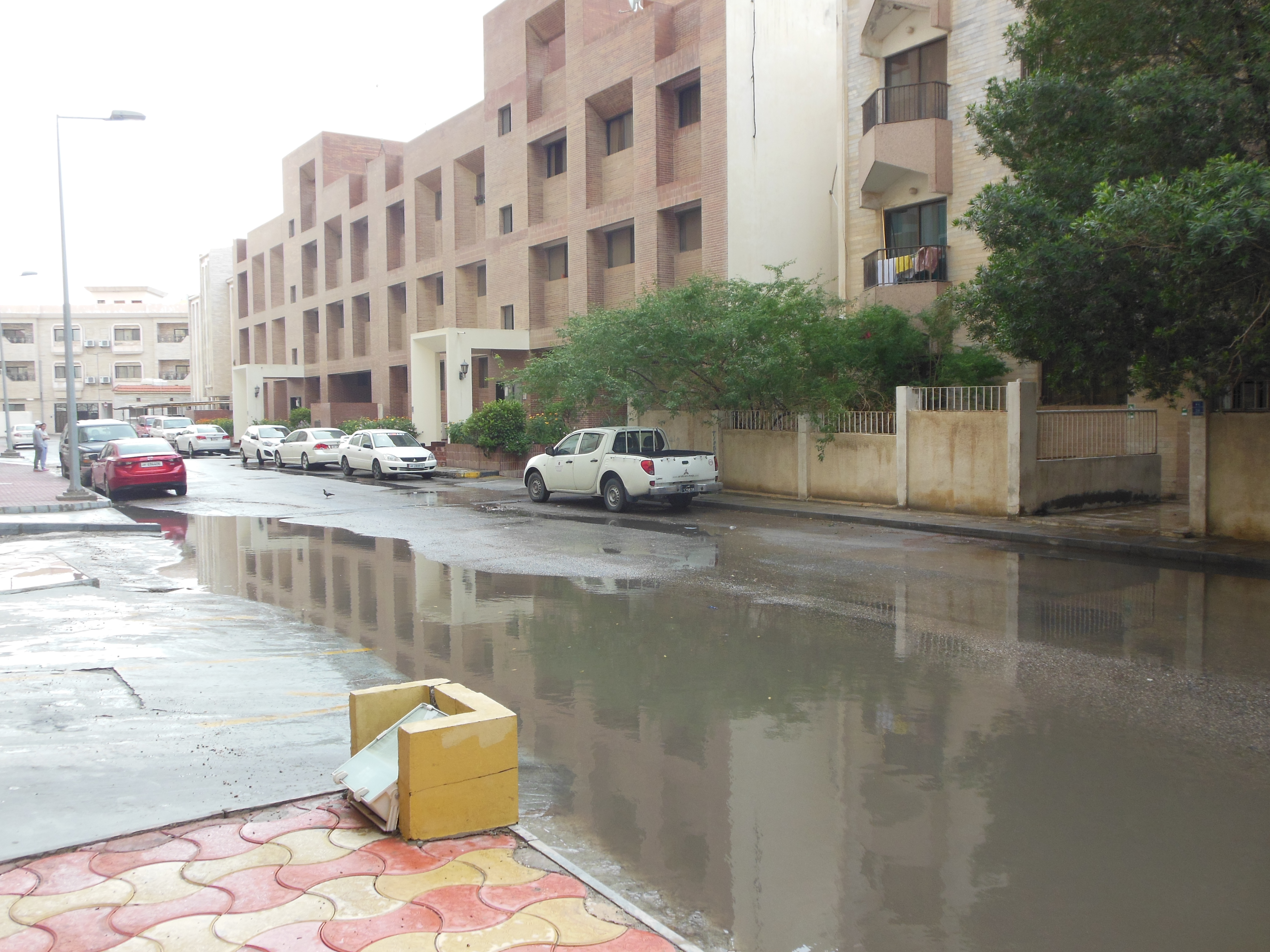 Flooding in the Al Mansoura district of Doha, Qatar.